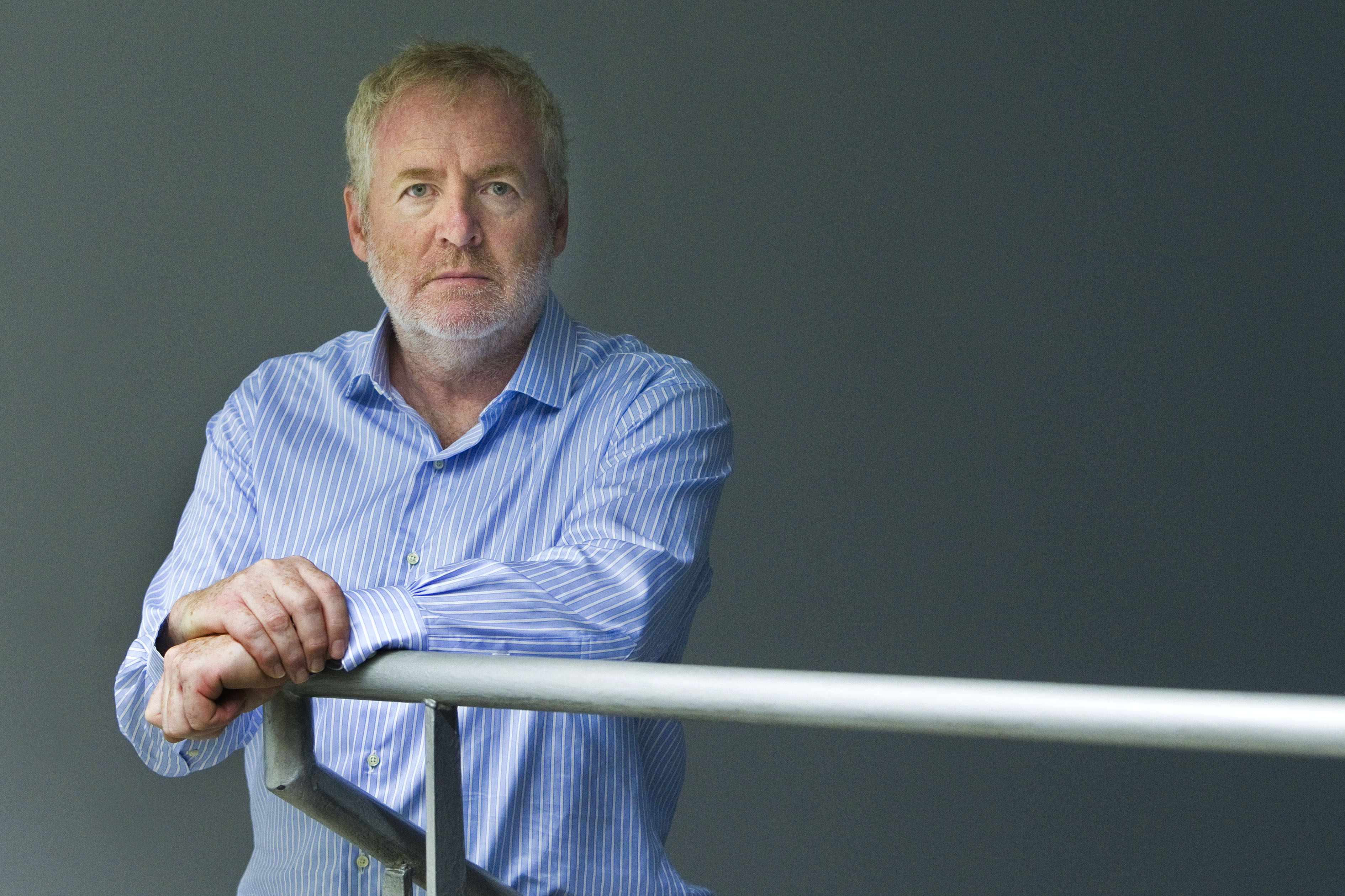 Bill Shipsey, Amnistía Internacional, Barcelona 11.09.2013 Fotografia PERE VIRGILI Diari Ara